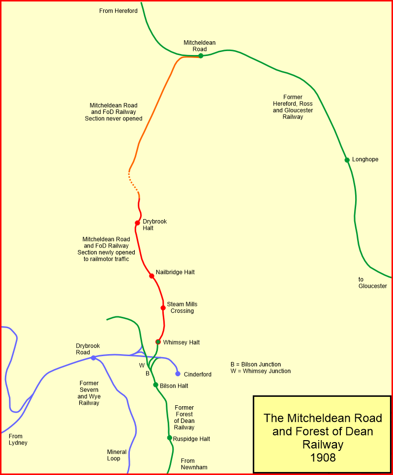 System map of the former Mitcheldean Road and Forest of Dean Railway, Gloucestershire (and just into Herefordshire), England in 1908